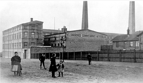 Henry Dunker started a successful rubber company in Helsingborgs Sweden employing Julius Gerkan as his technical director